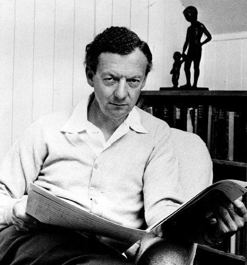 Publicity photograph of British composer Benjamin Britten